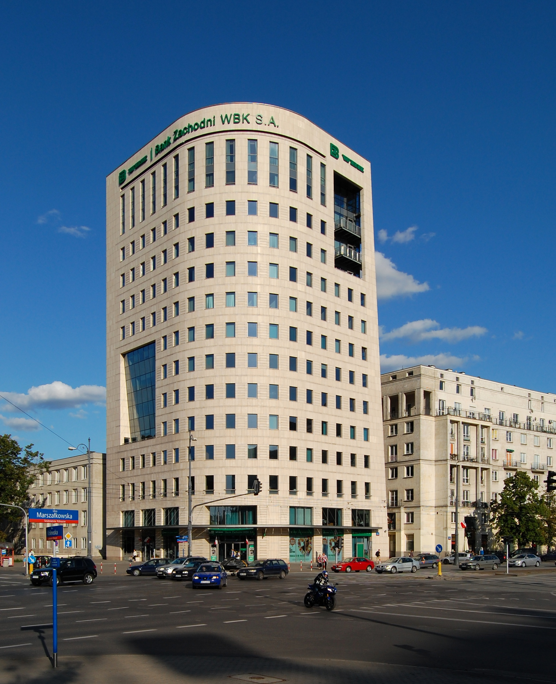 Centrum Królewska office building in Warsaw, Poland. Designed by Stefan Kuryłowicz.